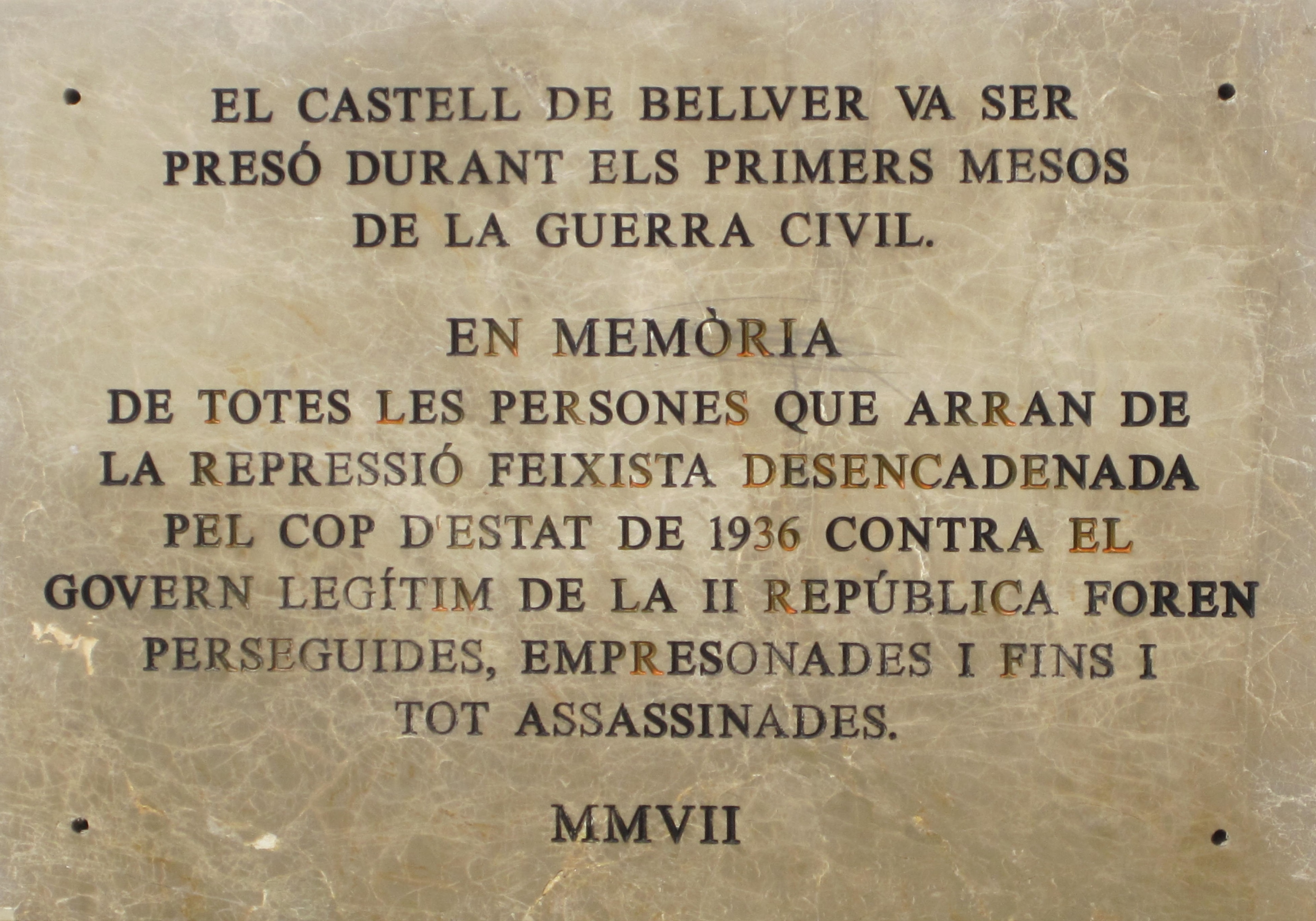 Plaque in Castell de Bellver, Mallorca, Spain.